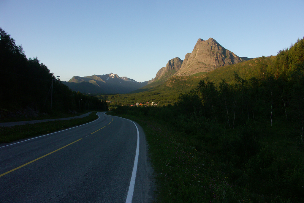 On Riksveg 17 (Kystriksvegen/The Coastal route) in Meløy, Nordland. View towards Spilderdalen. The houses are at Nedre Spildra. The mountain to the right is Spilderhesten (719 m).